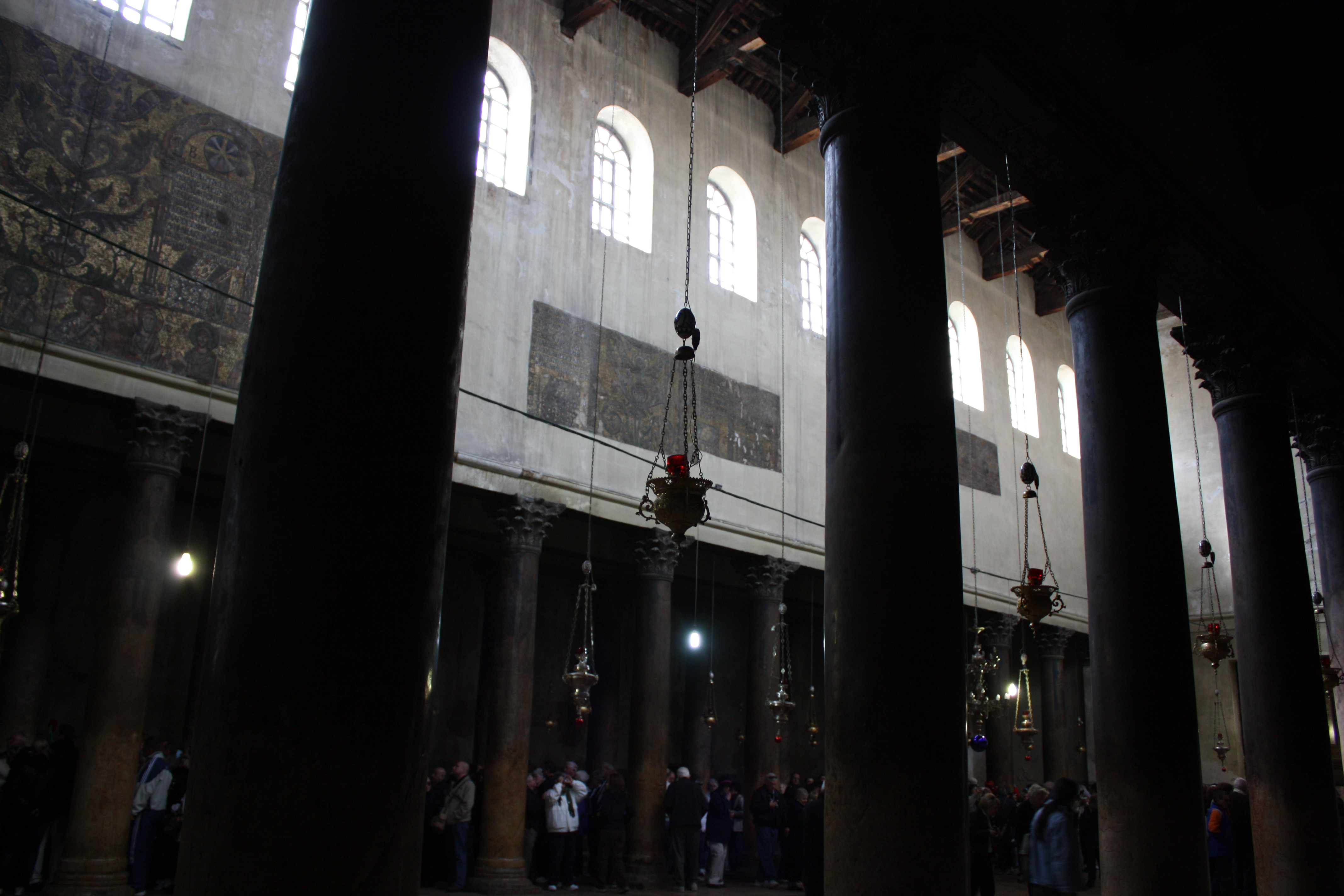 Nave of the Church of the Nativity from the north aisle.